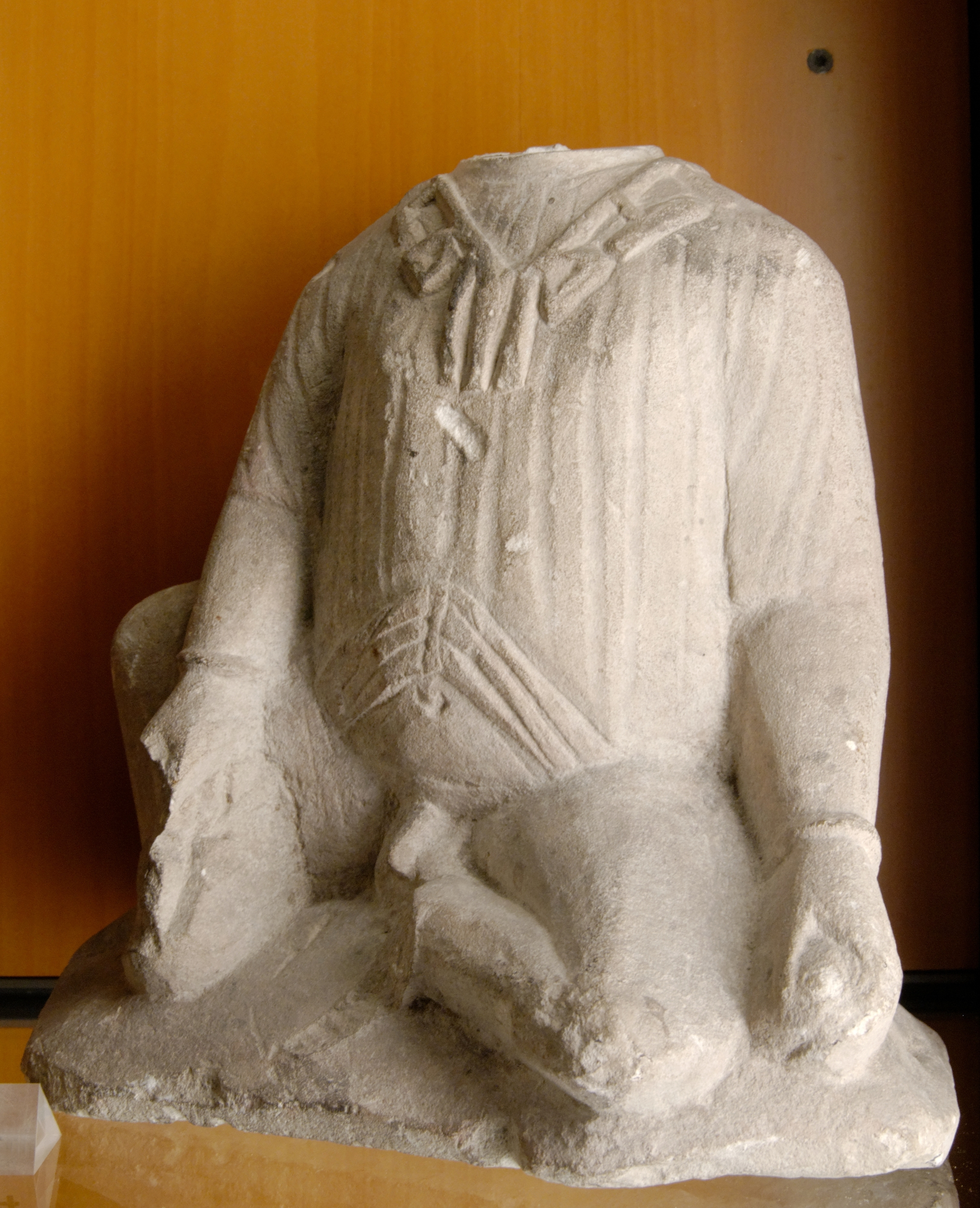 Headless statuette of a squatting “temple boy”. Classical or Early Hellenistic Cyprus.